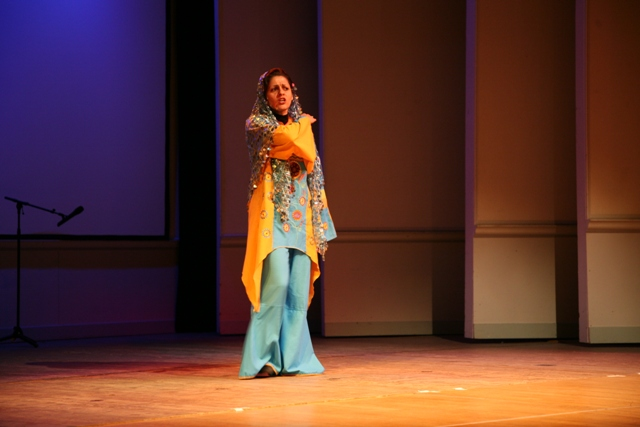 Margan Sadeghi, Iranian naqqāl (storyteller) of Shahnameh.